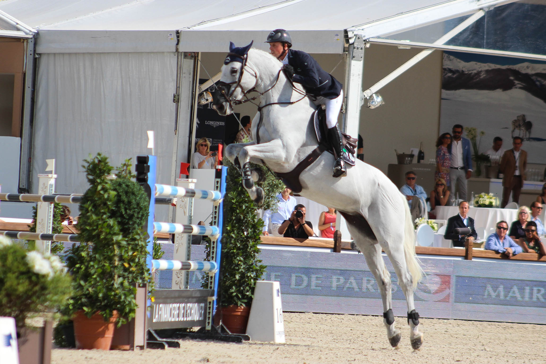 Maher and Cella jumping to a tie in Paris. Photo taken by Irene Elise Powlick